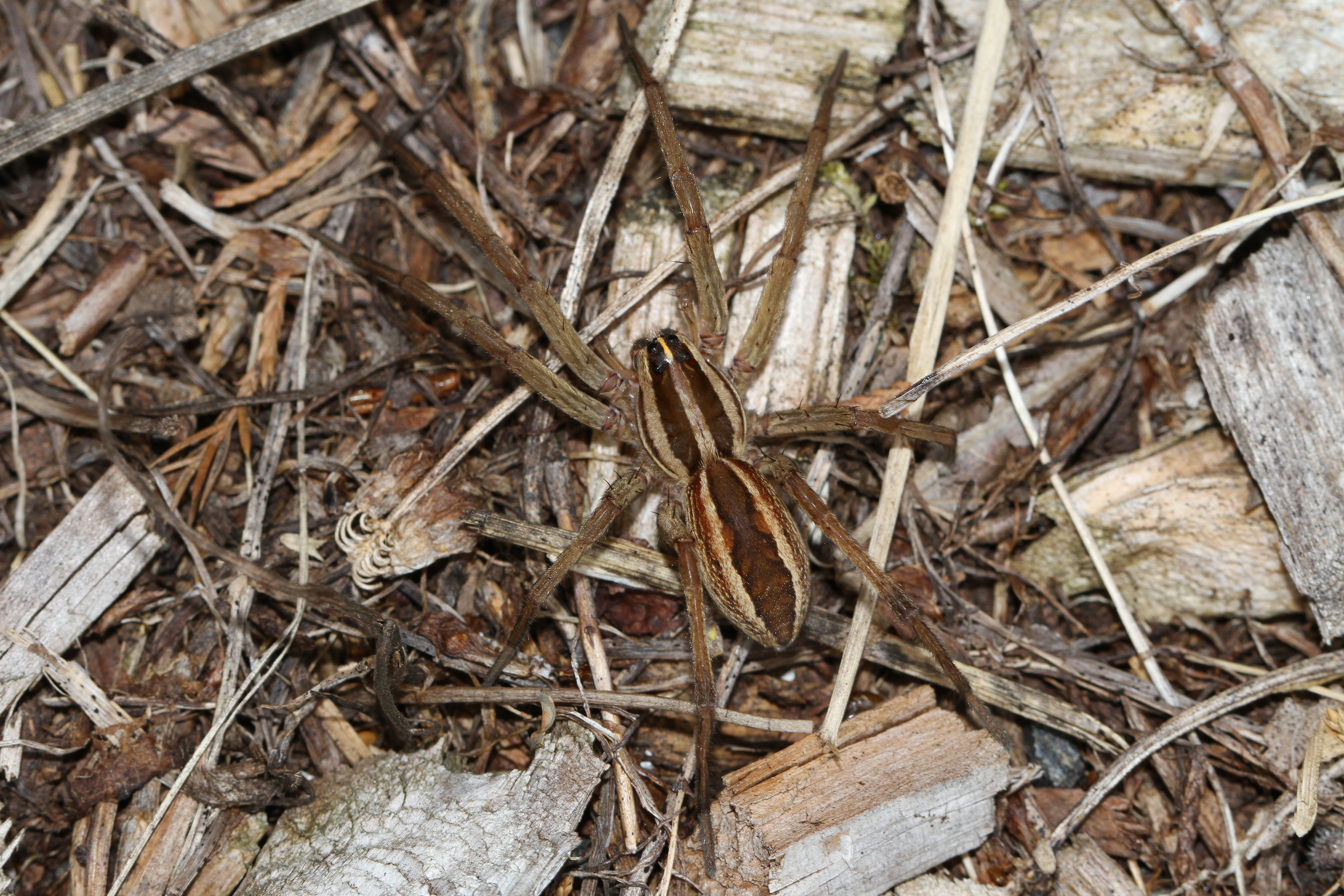 Rabid Wolf Spider - Rabidosa rabida, Merrimac Farm WMA, Nokesville, Virginia